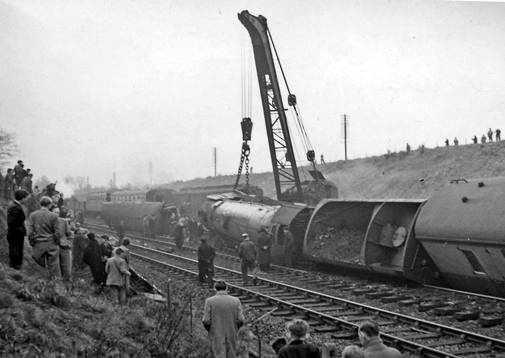 After a bad collision on the ECML south of Welwyn Garden City. View southward, towards Hatfield and London; ex-Great Northern East Coast Main Line. The 19.10 express from Aberdeen to King's Cross, hauled by A2/3 Pacific No. 60520 'Owen Tudor', had passed several signals at Danger - in fog and in spite of exploding detonators - and ran into the rear of the 06.10 Baldock - King's Cross local train, which was already on its way, at a closing speed of about 25 mph. Rear coaches of the Local were wrecked, killing one passenger and severely injuring 25 others. The Pacific overturned as seen, the driver being badly injured but the fireman was almost unharmed. The coaches of the express and their passengers were also relatively unharmed.